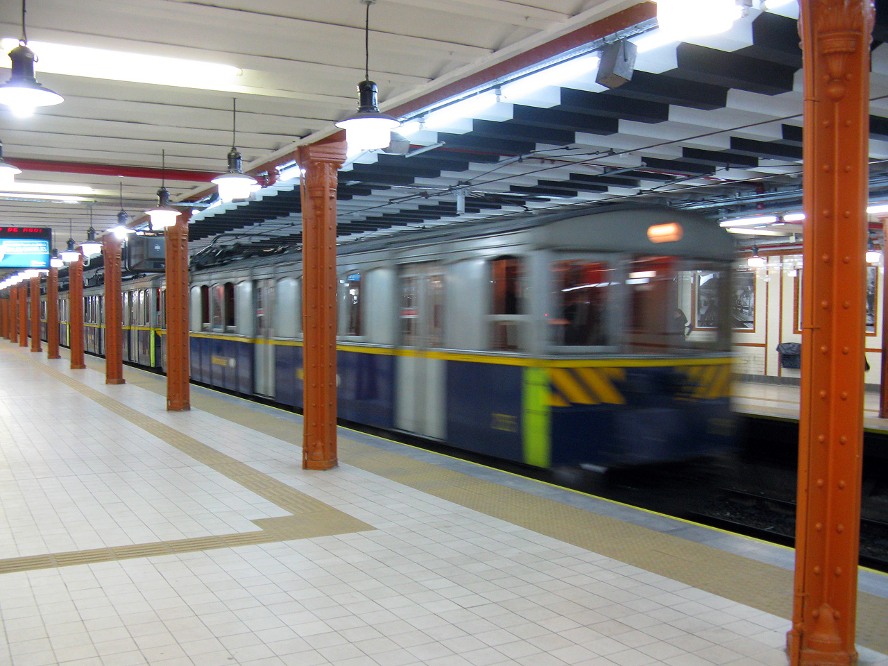 Vintage 'La Brugeoise' train with almost 100 years on duty and counting - 'Peru' Station - 'A' Line - Buenos Aires Subway